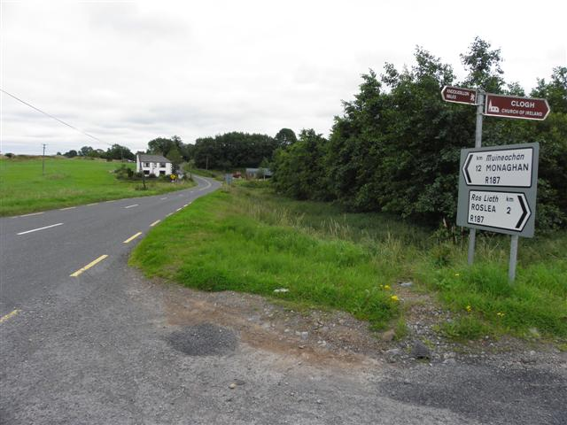 R187, Innishammon